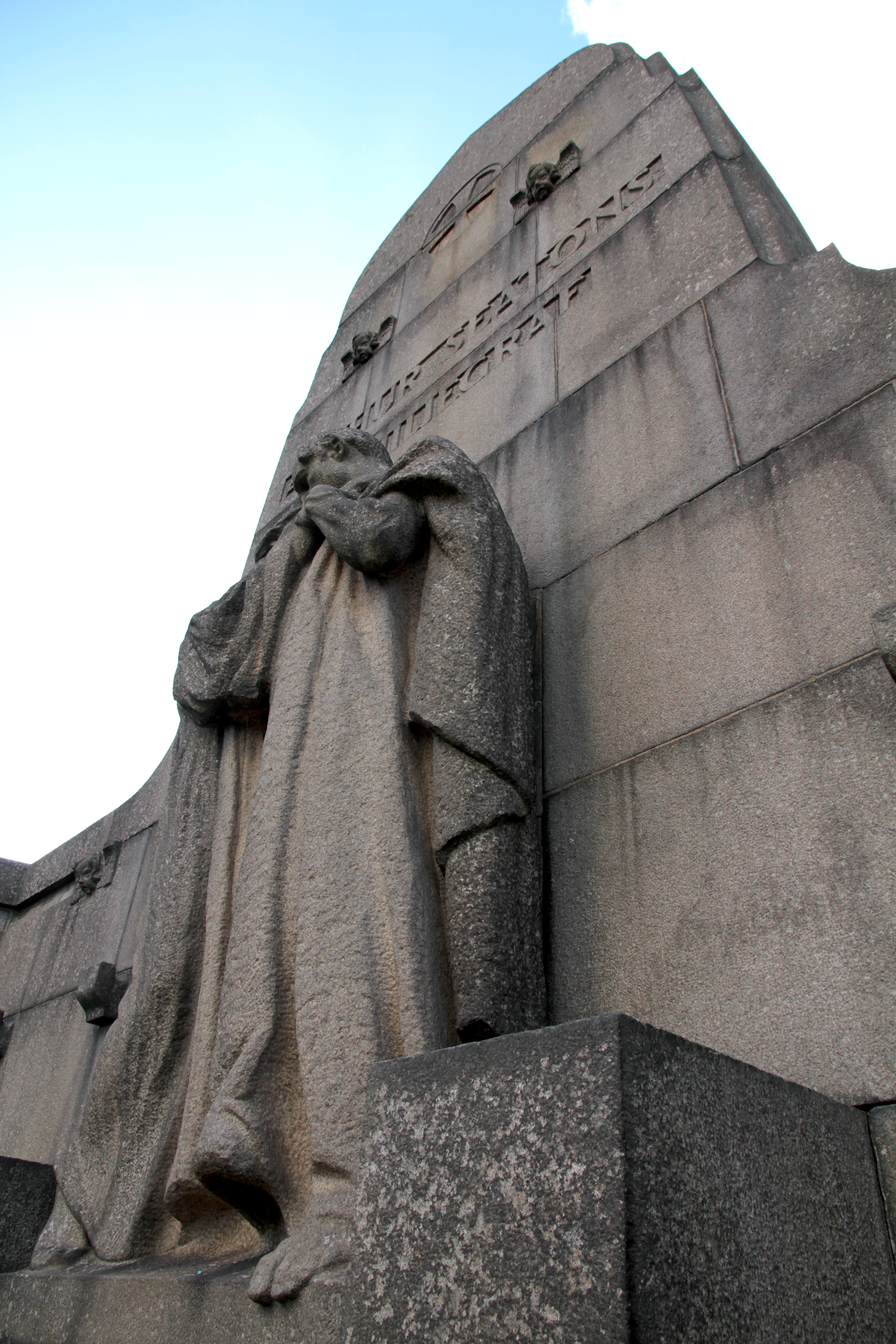 View of Arthur Seatons mausoleum at Eastern Cemetery Gothenburg Sweden